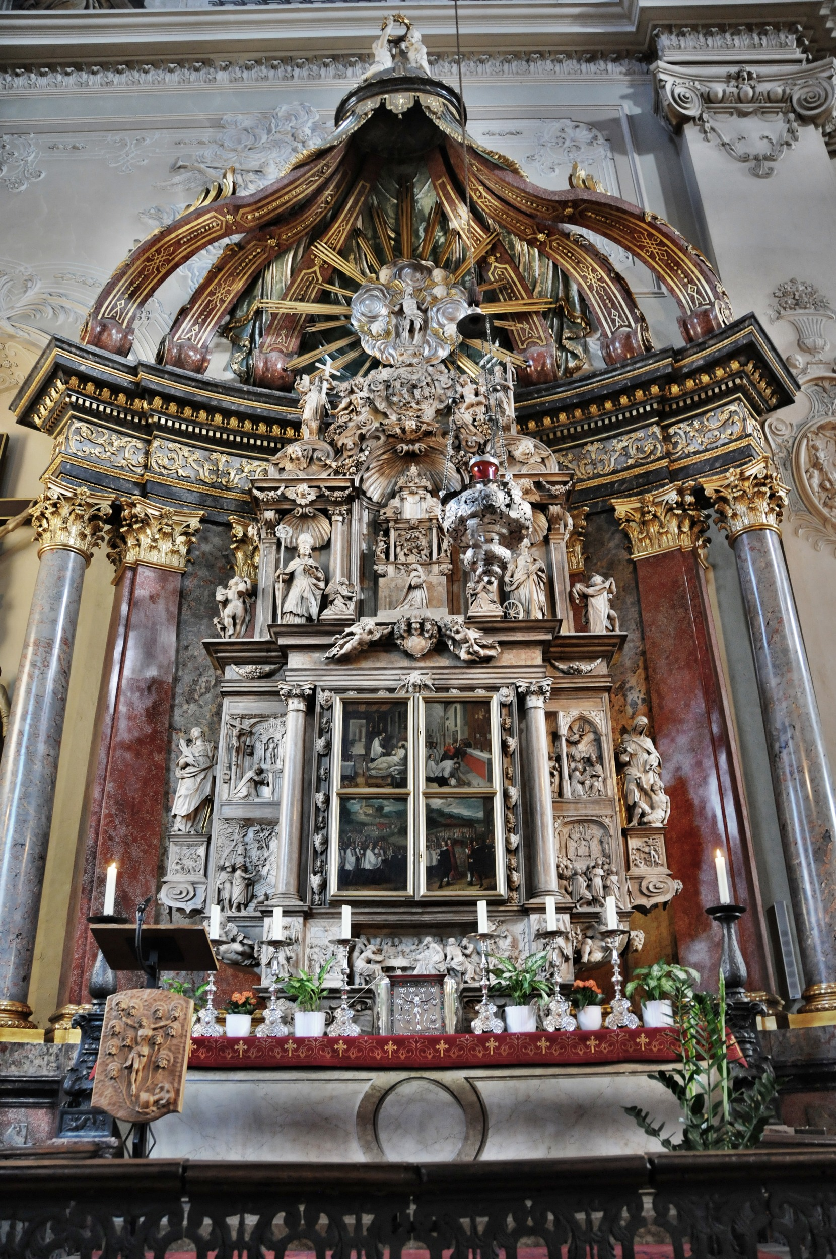 Pilgrimage church St George in Walldürn (Germany), blood altar